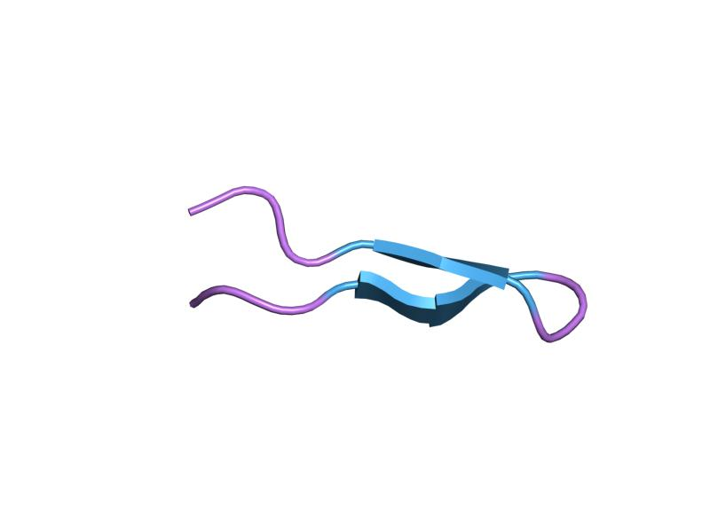 Cartoon representation of the molecular structure of protein registered with 1j4m code.